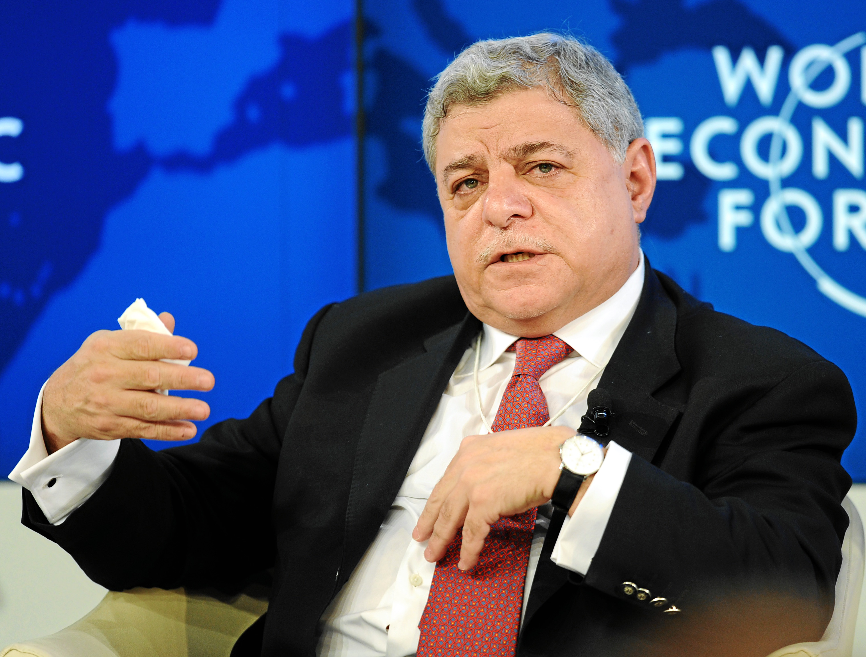 DAVOS/SWITZERLAND, 26JAN12 - Awn Shawkat Al Khasawneh Prime Minister and Minister of Defence of the Hashemite Kingdom of Jordan gestures the session 'Averting a Lost Generation' at the Annual Meeting 2012 of the World Economic Forum at the congress centre in Davos, Switzerland, January 26, 2012.. . Copyright by World Economic Forum. by Michael Wuertenberg